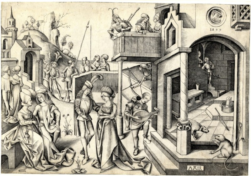 "The hour of Death", engraving dated 1499 Mair von Landshut (1450 - 1504 active) (printmaker)